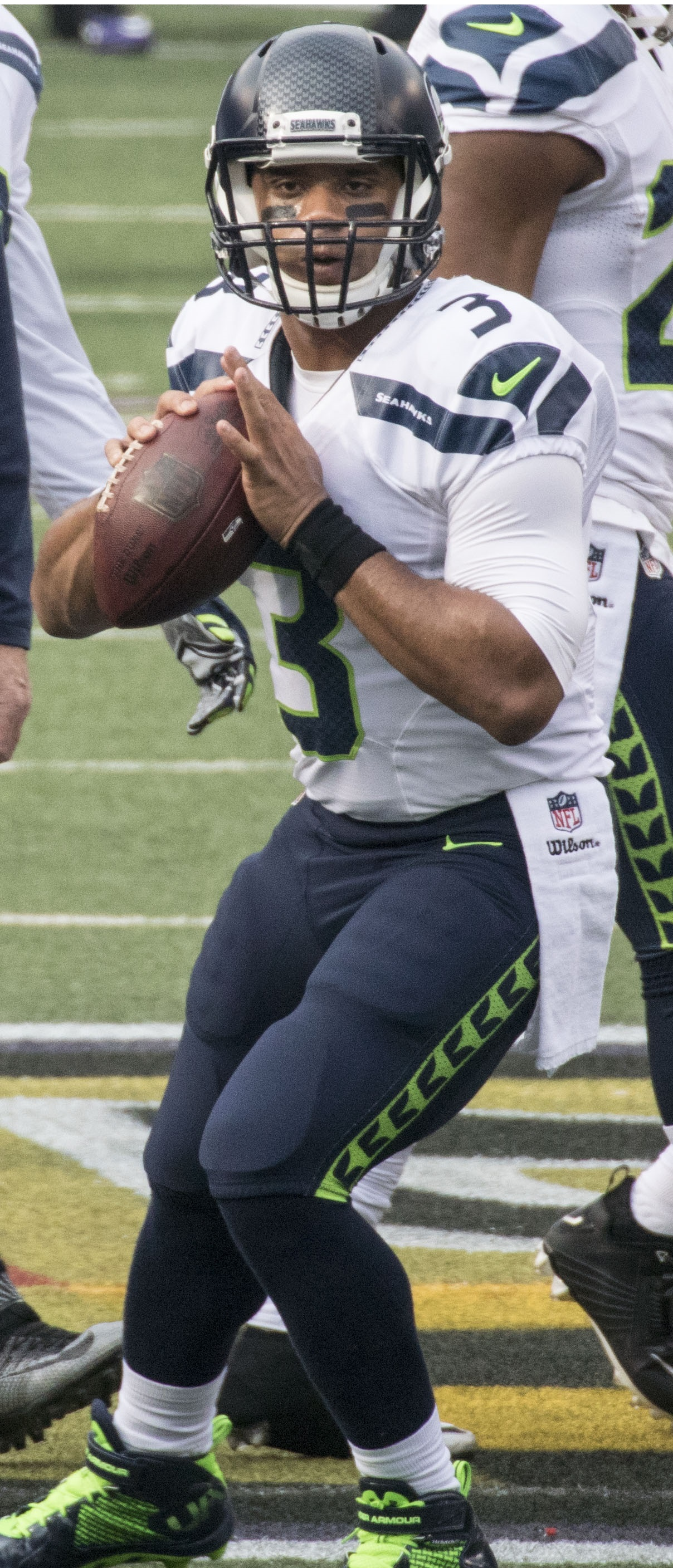 Seahawks at Ravens 12/13/15